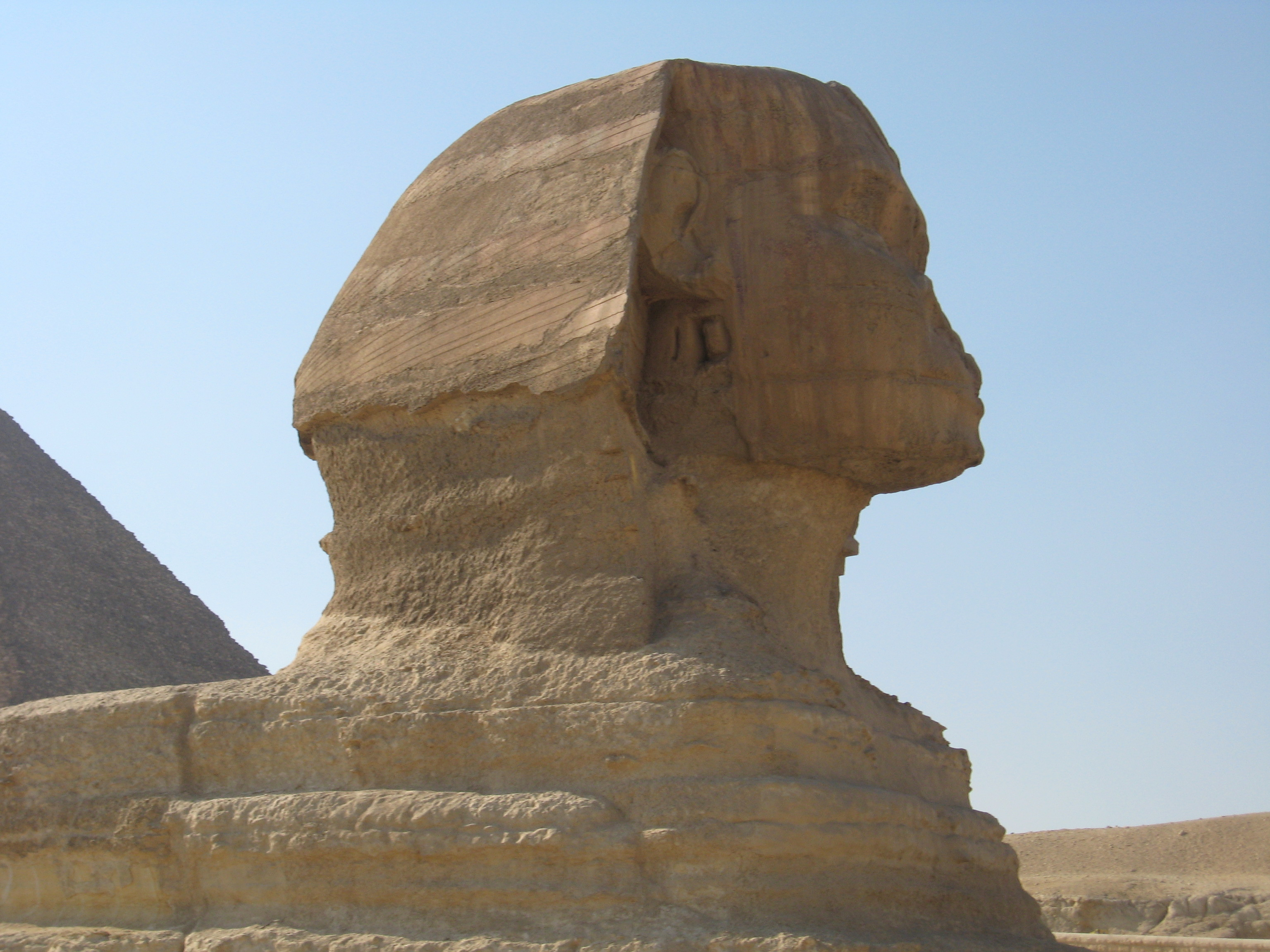 Sphynx head.jpg